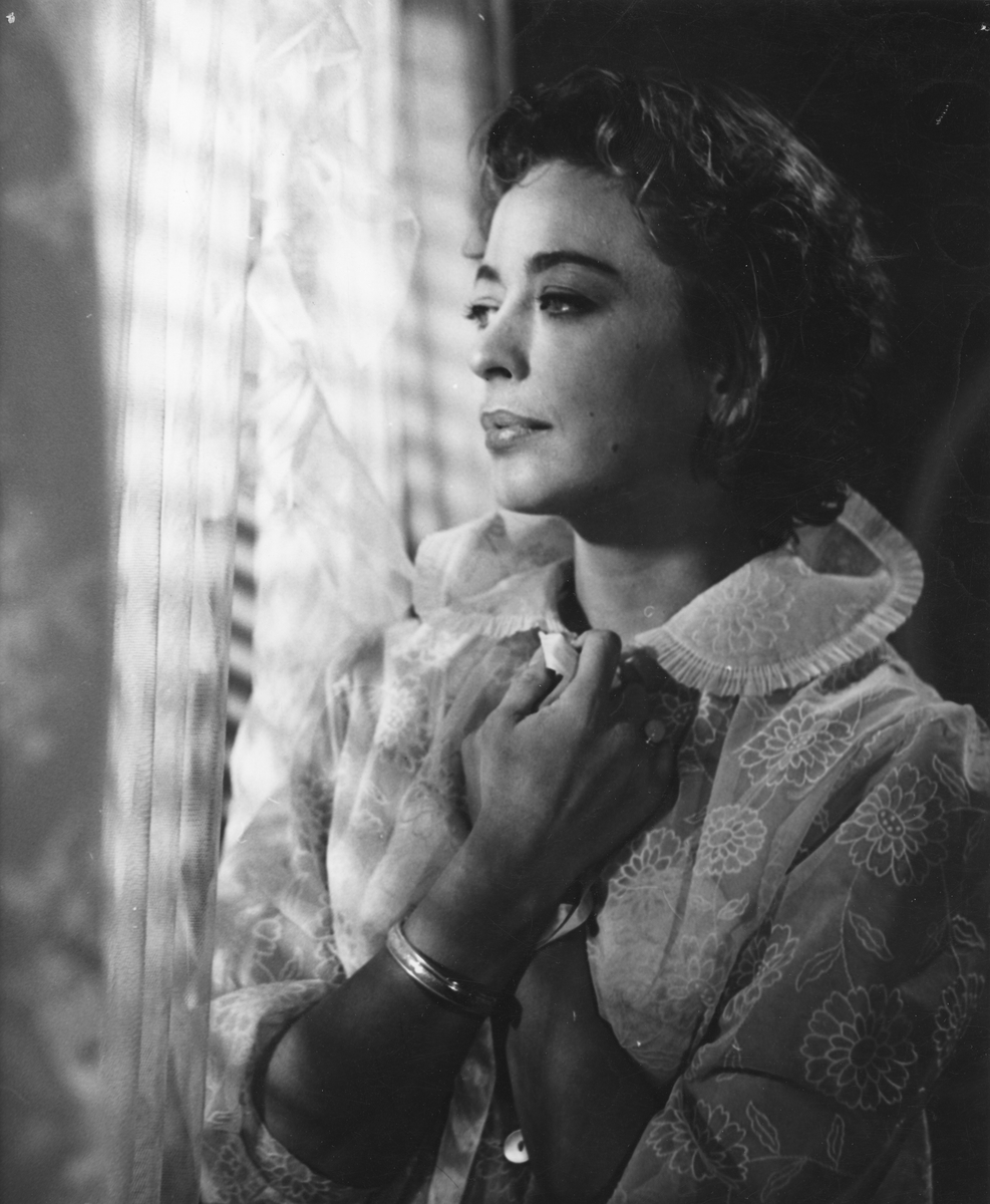 Publicity photograph of the Finnish actor Gunvor Sandqvist (1923–2014) posing for the film Tulipunainen kyyhkynen.